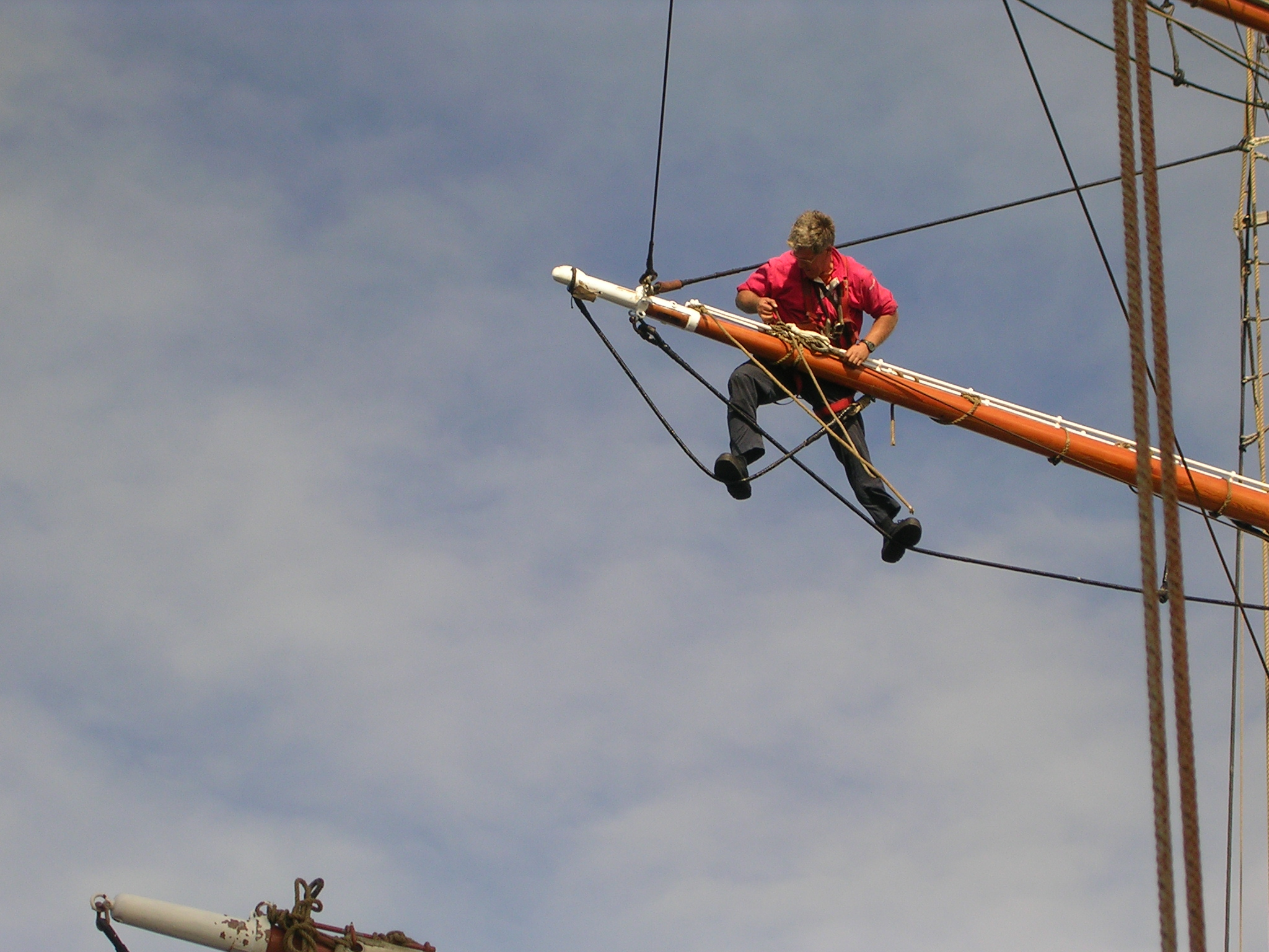 A deckhand working at the Stavros S Niarchos's starboard main-topgallant yardarm. He is standing on both the main footrope and the flemish horse while re-reeving the sheet for the main-royal. The line passing diagonally behind his back is the starboard topgallant lift; the one apparently rising vertically to the top of the picture is in fact the brace pendant, running forwards to the foremast from which the picture was taken. There would normally be a line (the starboard main-topgallant clewline) running to the yardarm just visible at the bottom of the picture; this is missing because the yard is still being re-rigged after being brought down on deck for maintenance. Note that there is still no sail on the topgallant yard. Photo by Pete Verdon